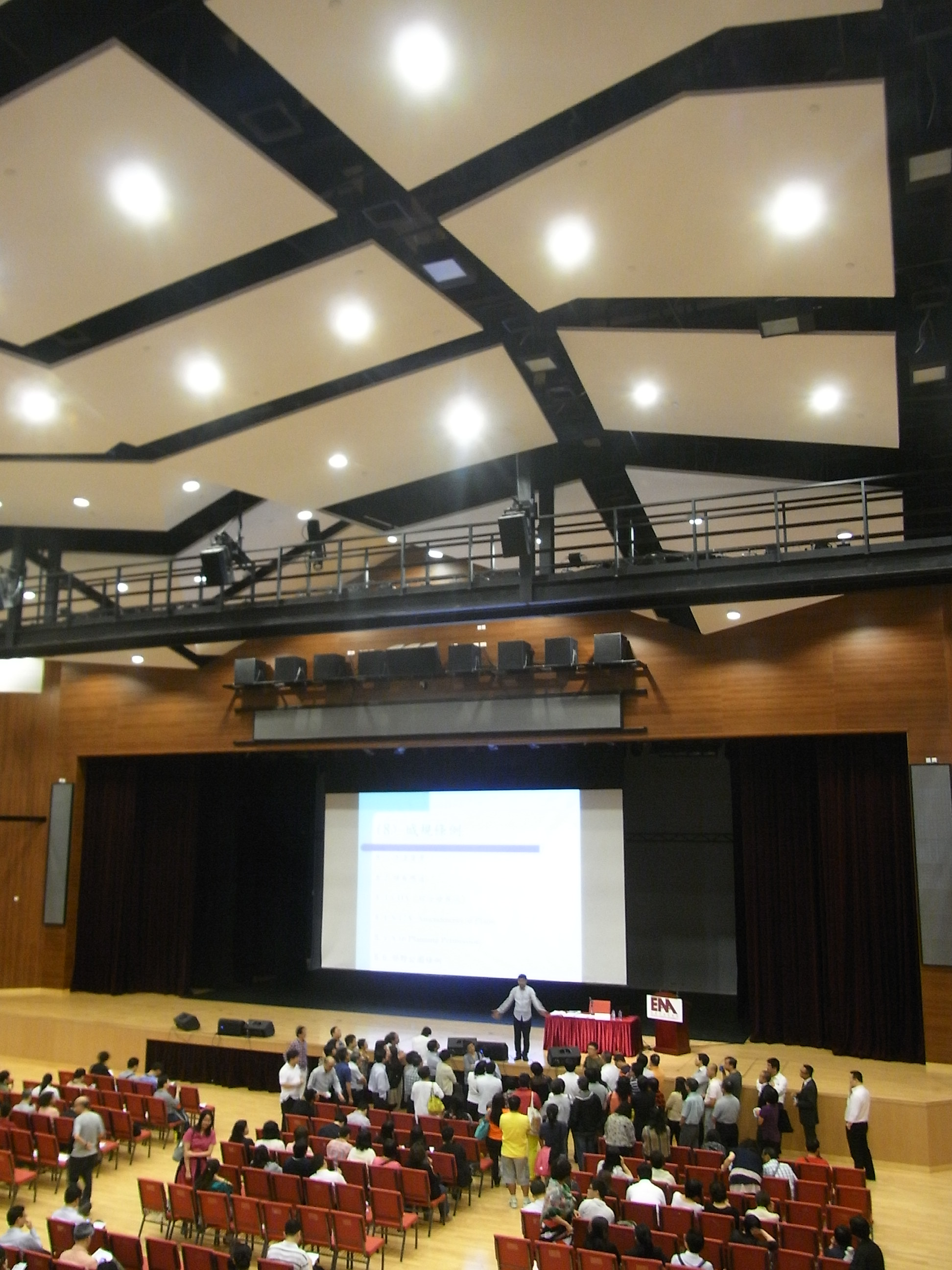 沙田 新界鄉議局大樓, Heung Yee Kuk Building, Shek Mun, Sha Tin, Hong Kong